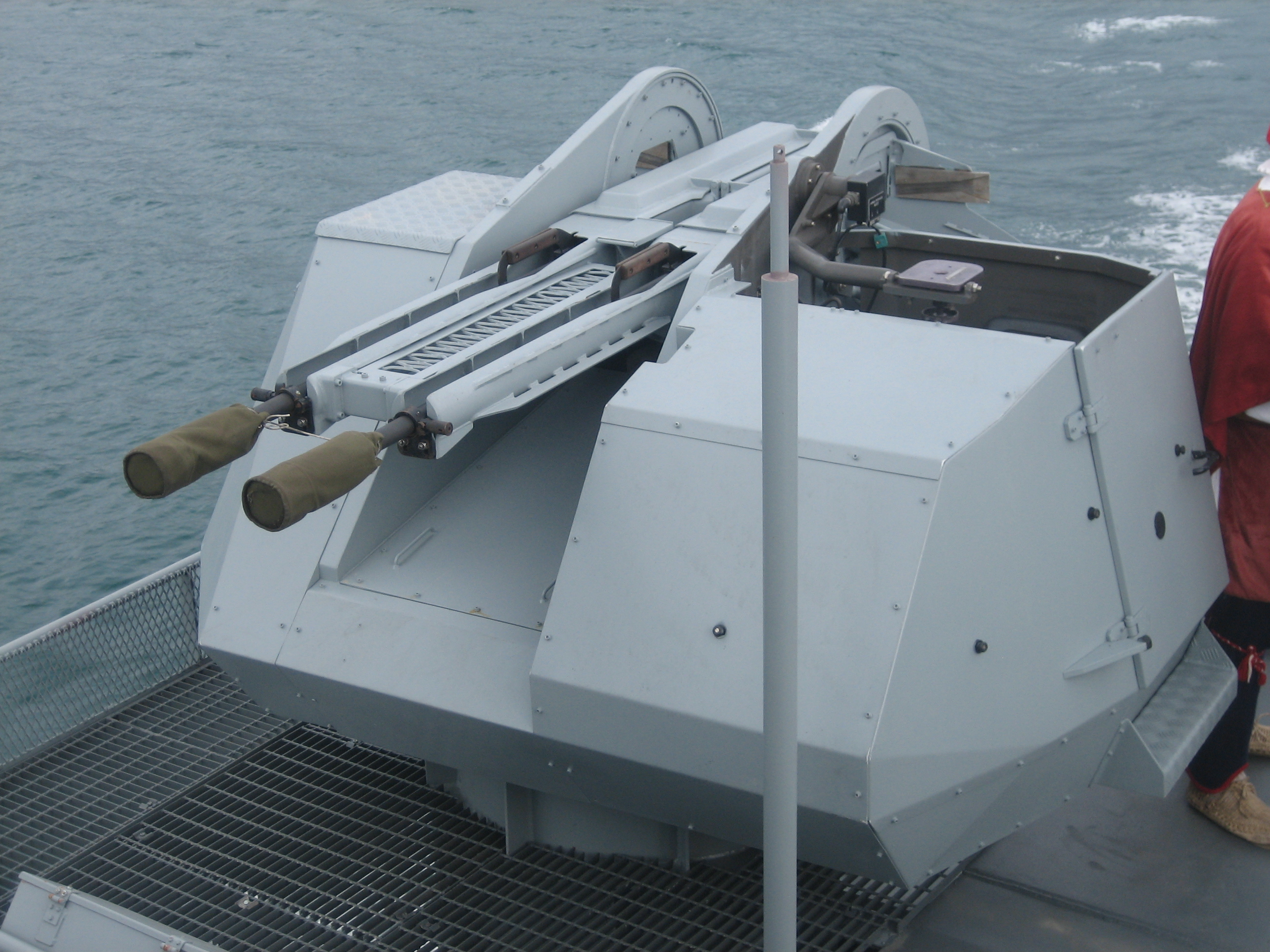 SAKO antiaircraft gun on Croatian Navy's RTOP-41 Vukovar